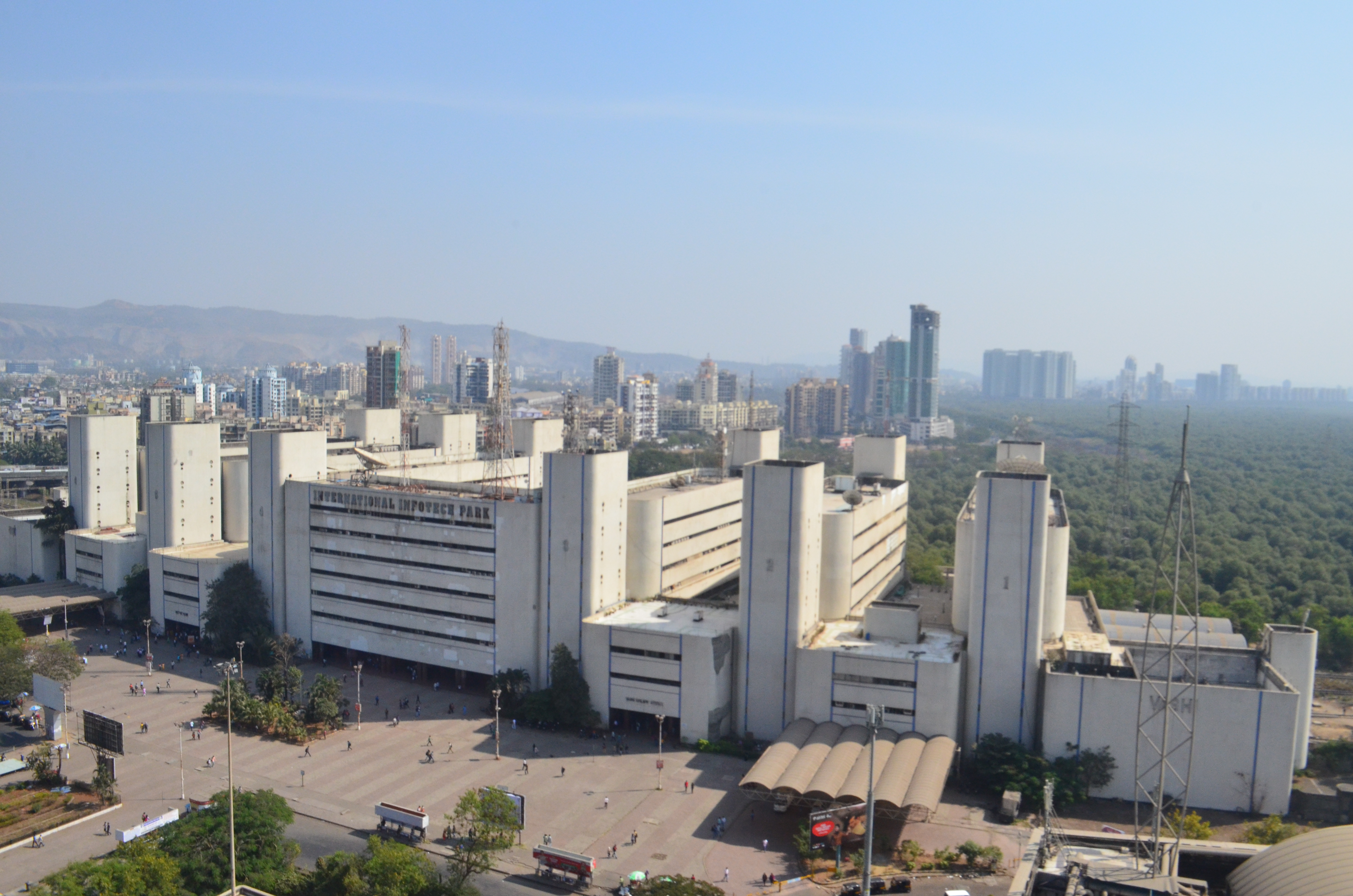 Vashi railway station aerial view from the opposite infotech park, 2016